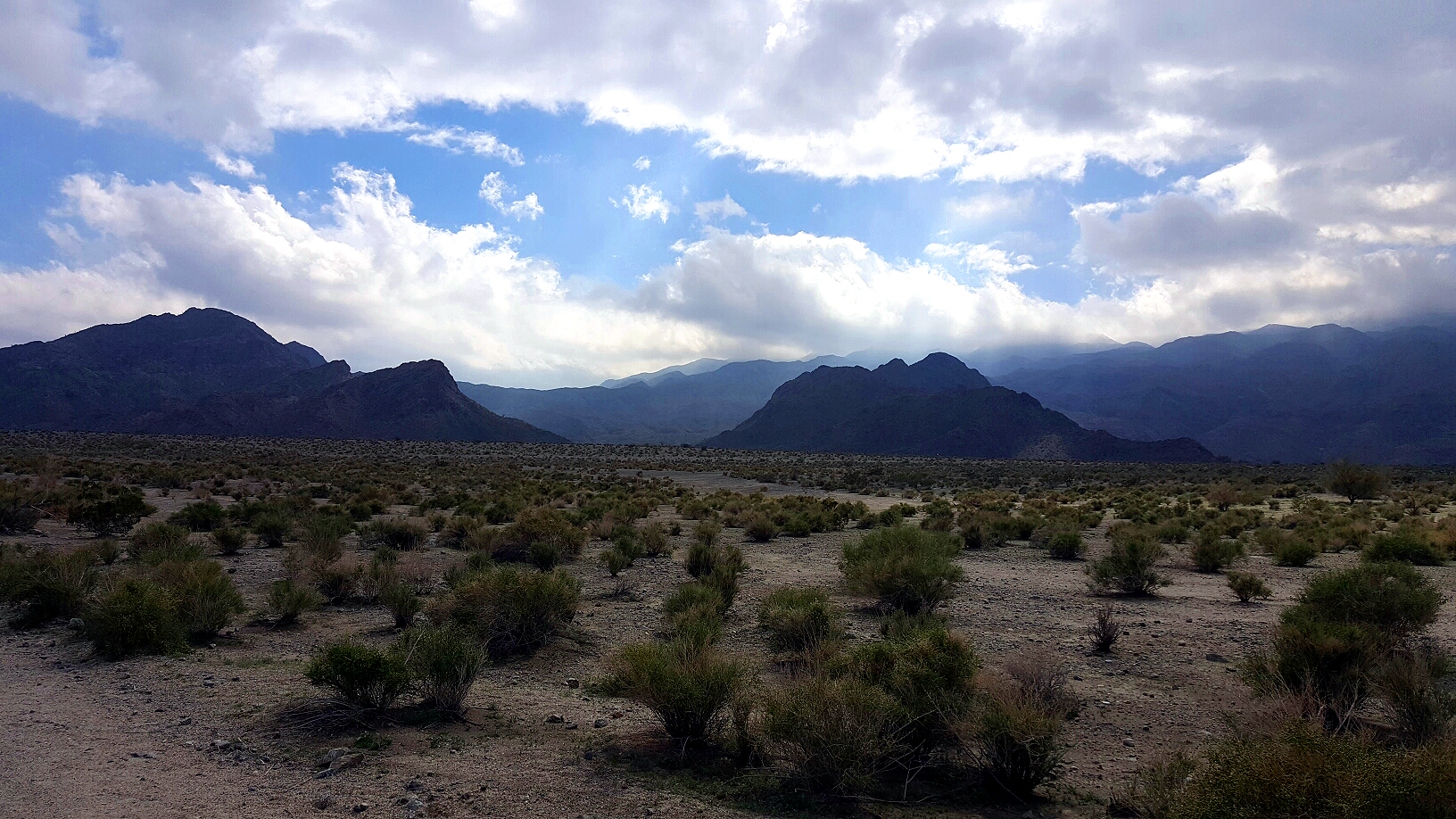 Undeveloped area of Indian Wells, California